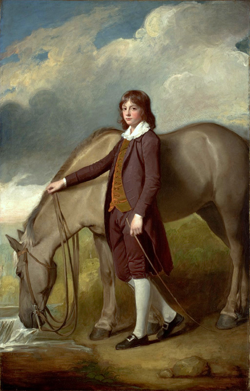 John Walter (or Wharton) Tempest, with a Horse